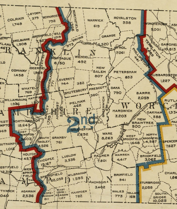 Detail of: Map of Massachusetts showing population according to United States Census of 1900 and congressional districts